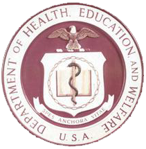 Seal of the old United States Department of Health, Education, and Welfare. The seal was defined by Executive Order 10510 on December 17, 1953. The blazon is defined here as: SHIELD: Argent an open book with sanguine binding charged overall with a staff of Aescalapius paleways within an annulet of chain all proper. CREST: On a wreath argent and sanguine an American bald eagle displayed and wings partially inverted proper. Below the shield a white scroll inscribed with the motto SPES ANCHORA VITAE in black letters, all on a circular sanguine background within a white band, inner edge white, outer edge sanguine, and inscribed DEPARTMENT OF HEALTH, EDUCATION, AND WELFARE U.S.A. The Latin inscription means Hope is the anchor of life.